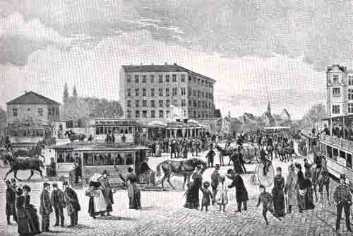 Drawing of Trianglen in Copenhagen, Denmark